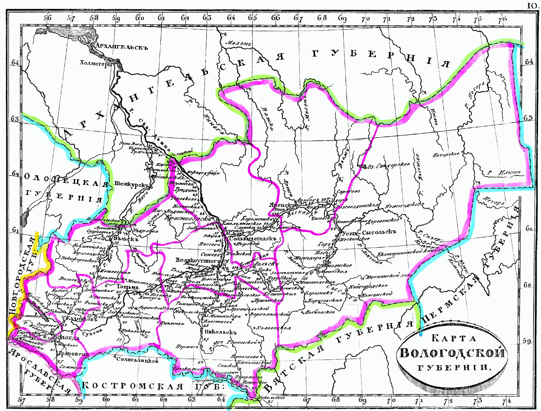 Map of Vologda Governorate, 1835